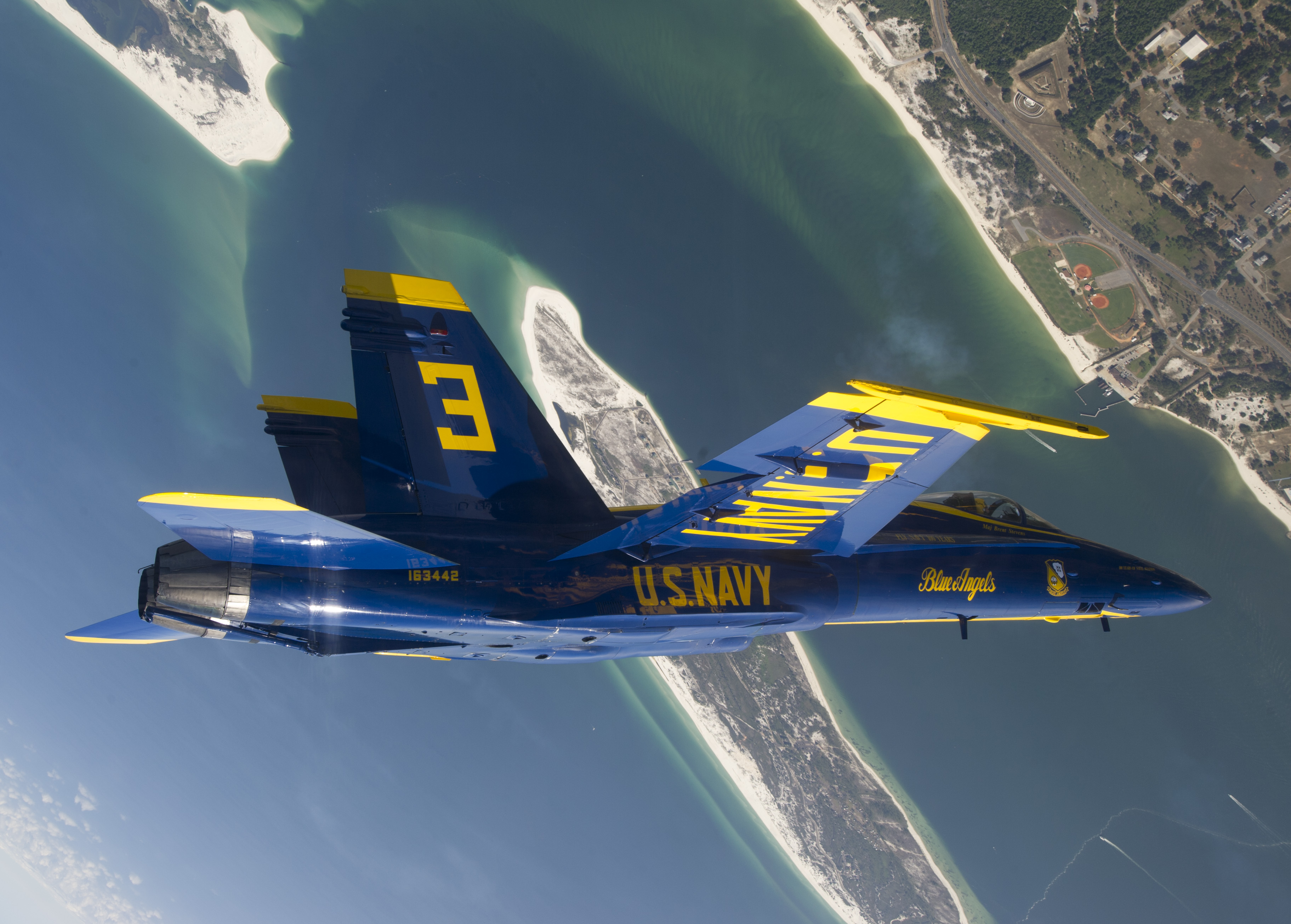 PENSACOLA, Fla. (May 17, 2011) U.S. Marine Corps Maj. Brent Stevens, left wingman for the 2011 U.S. Navy flight demonstration squadron, the Blue Angels, performs a looping maneuver over Naval Air Station (NAS) Pensacola during a practice flight. The squadron typically practices over NAS Pensacola on Tuesday and Wednesday mornings throughout the air show season. (U.S. Navy photo by Mass Communication Specialist 3rd Class Andrew Johnson/Released)